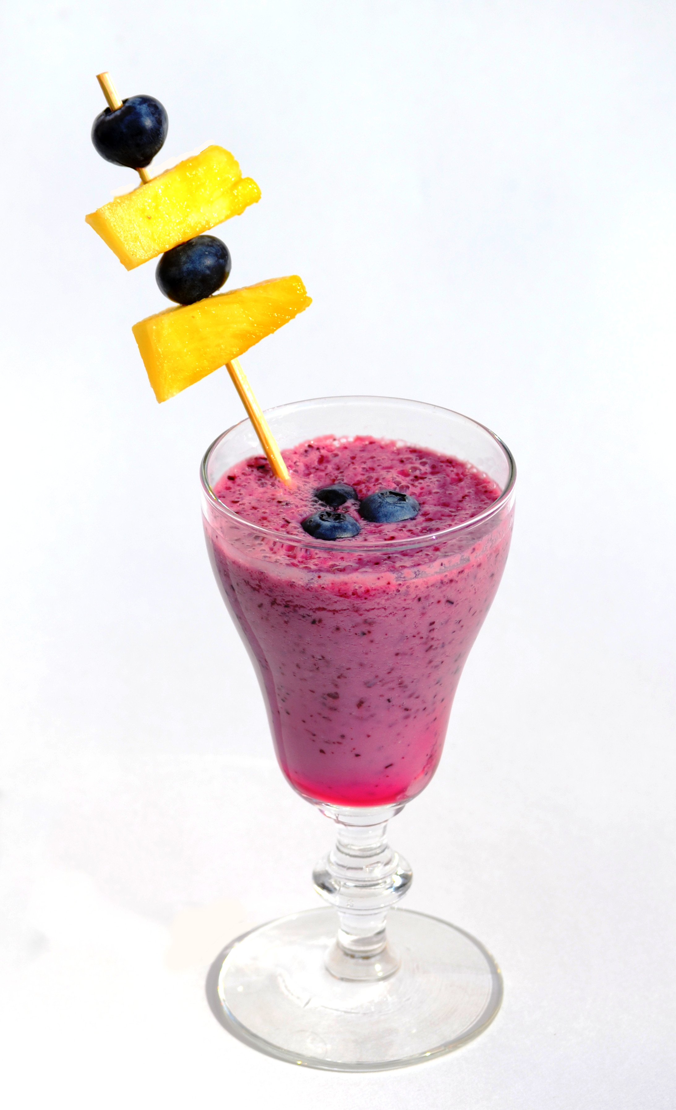 A blueberry smoothie.